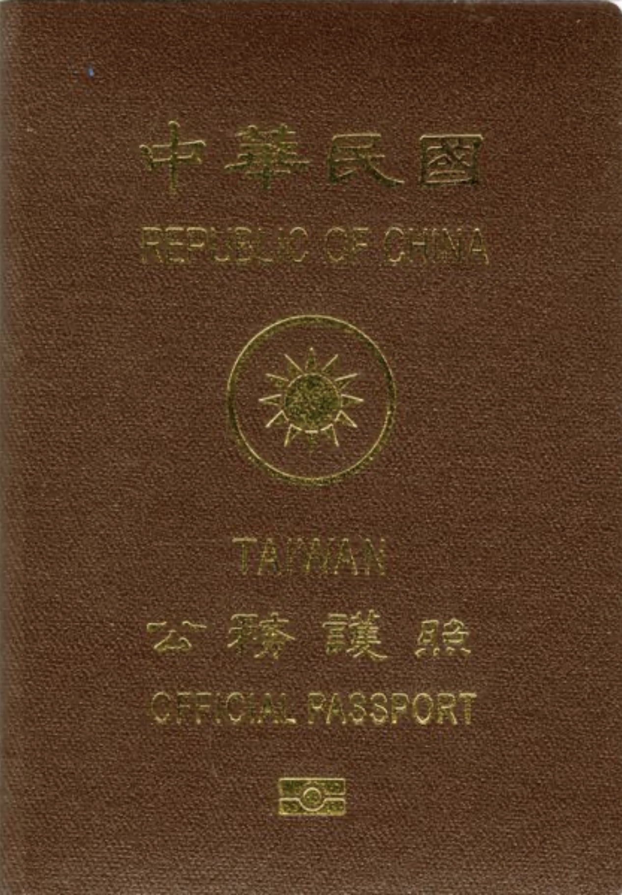 ROC Official Passport front cover